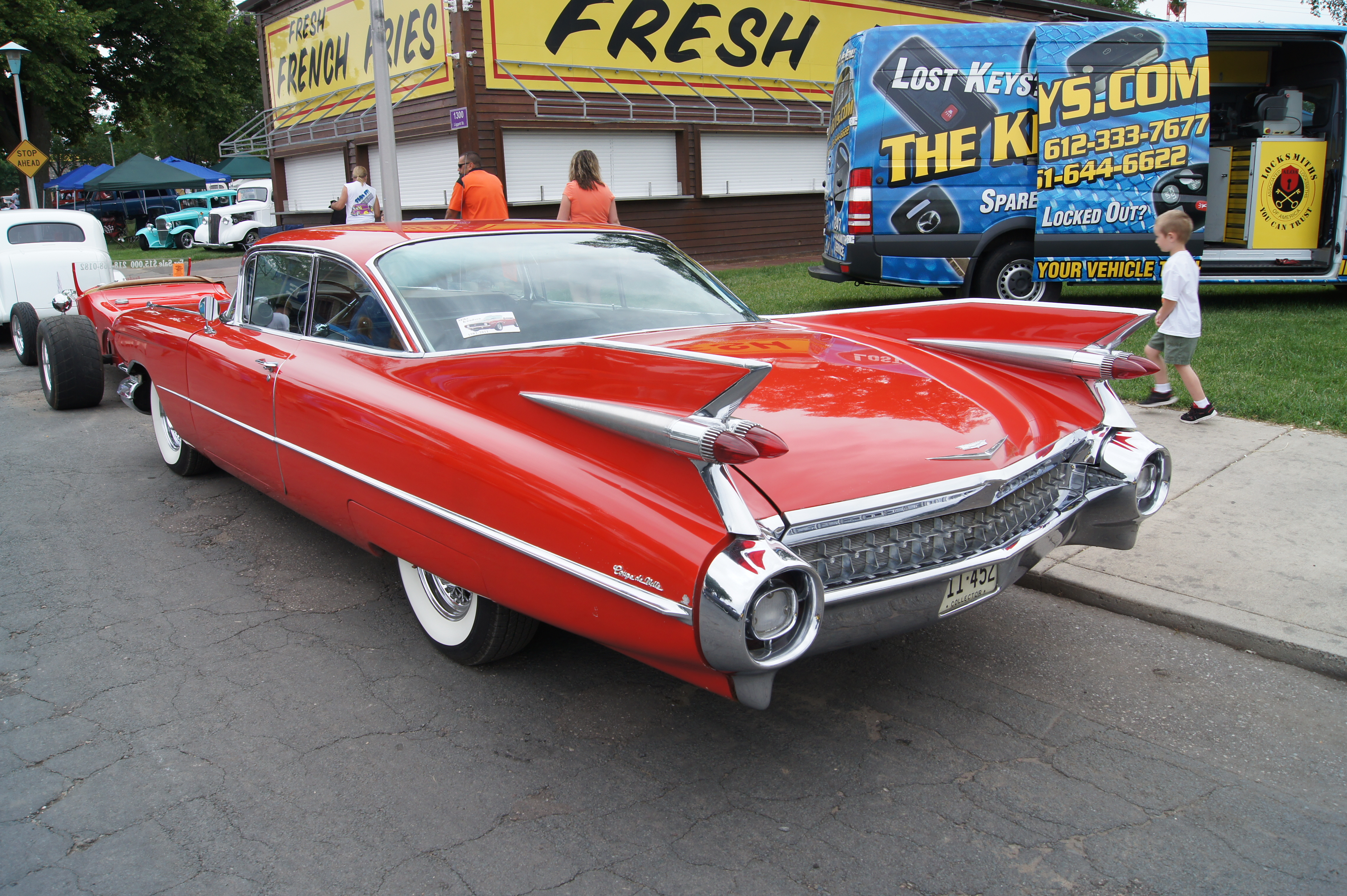 Minnesota Street Rod Association "Back to the Fifties" June 2012 Minnesota State Fairgrounds St. Paul MN